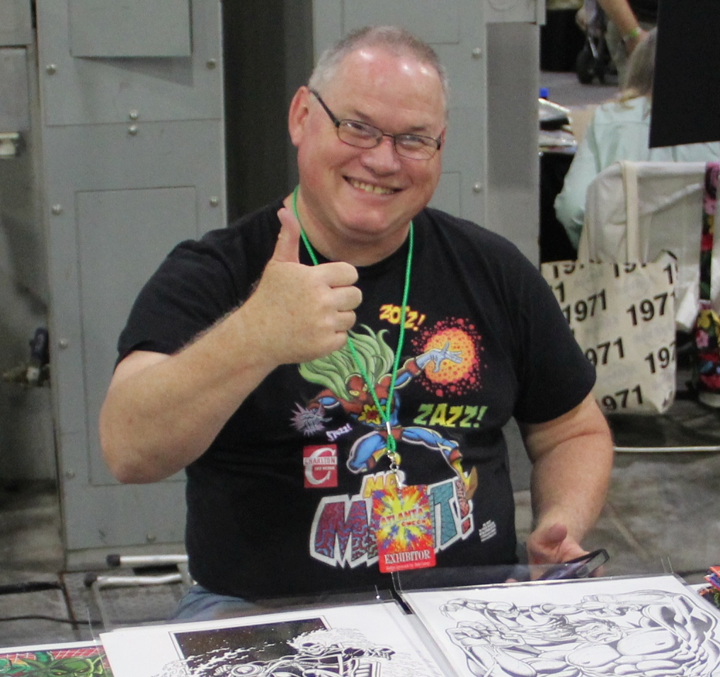 Steven Butler at Atlanta Comic Con